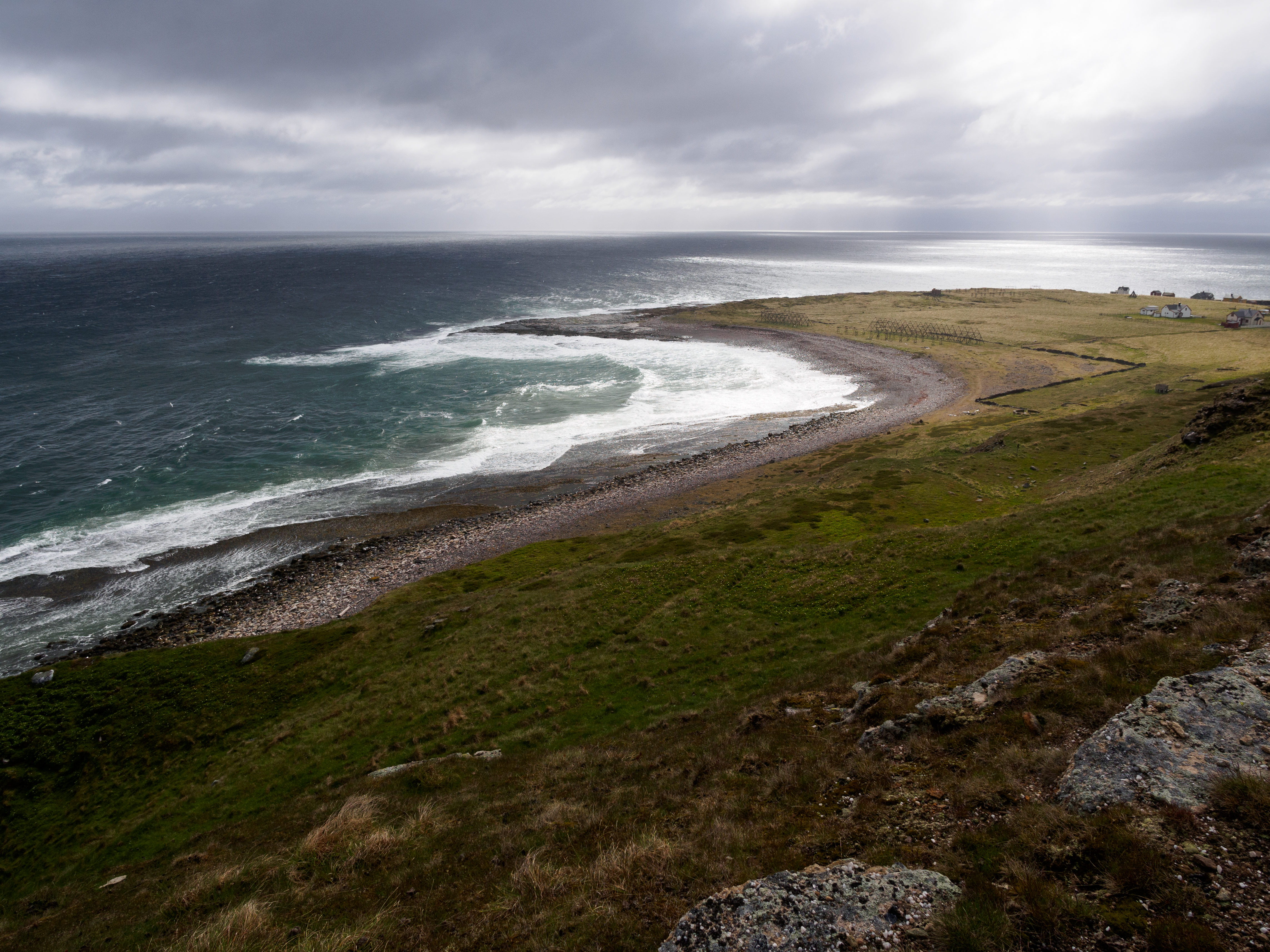 View of the beach on the south-west side of the island of Ekkerøy.